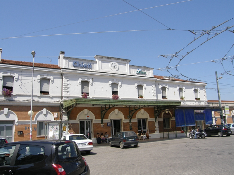 Chieti